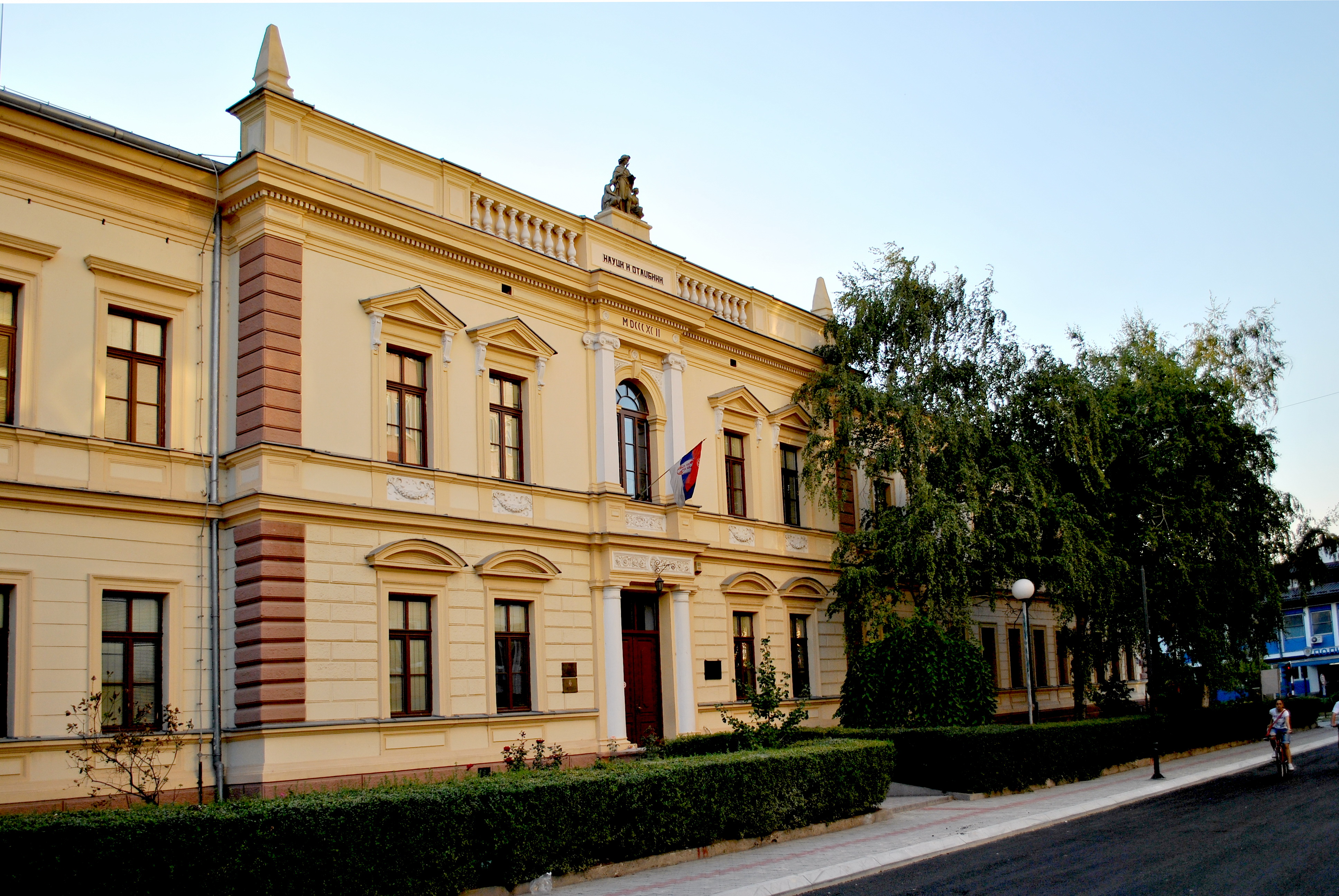 СК 597